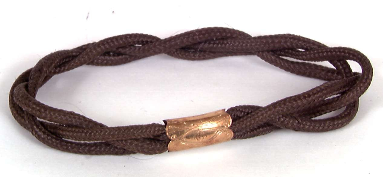 Hairwork bracelet with gold/golden clasp